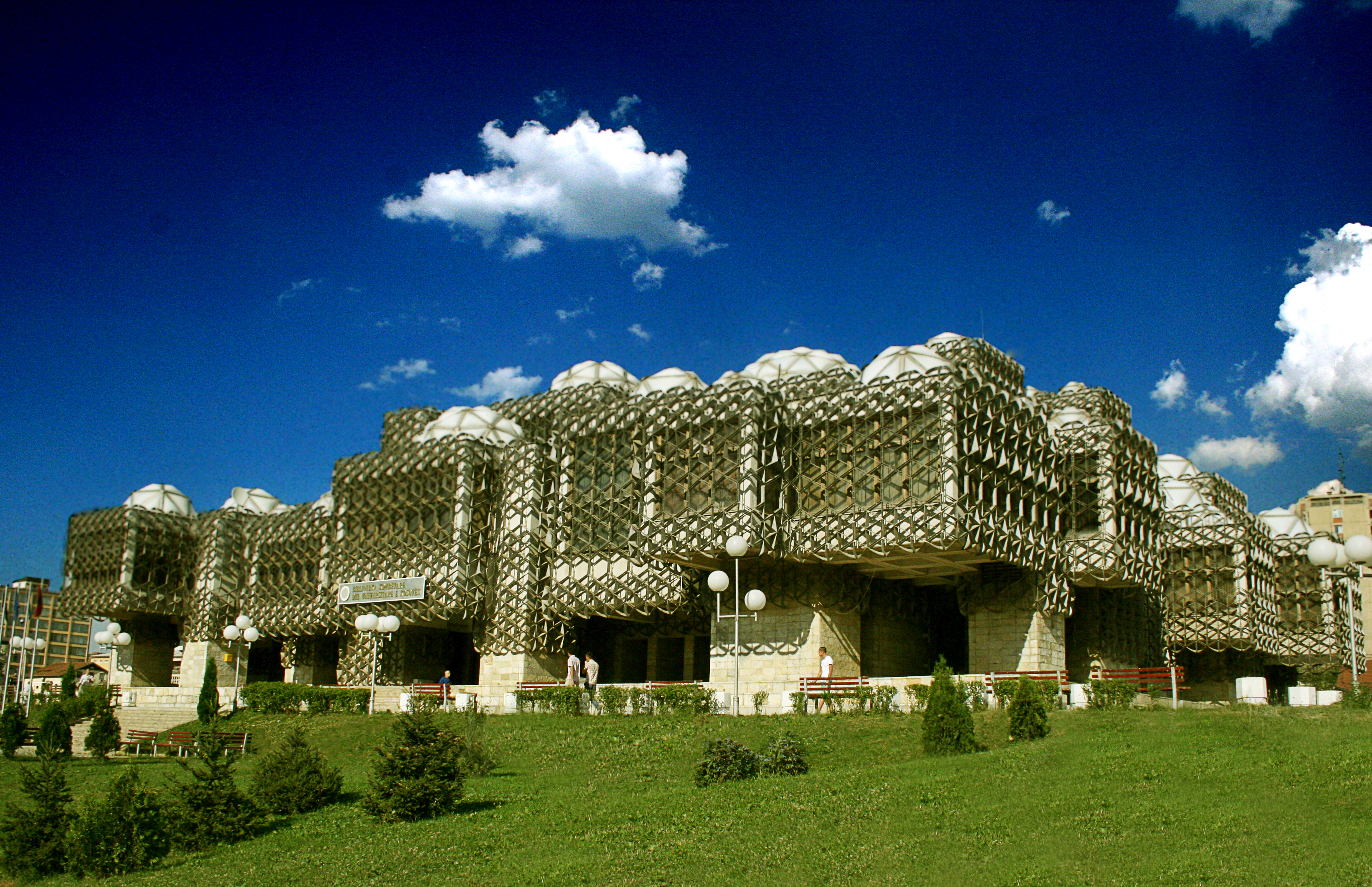 National Library of Kosovo